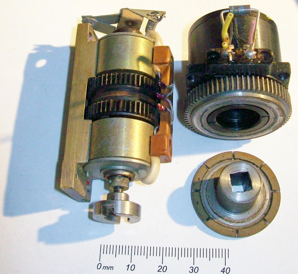 electromagnetic clutches, left with 2 independent downthrusts, right disassembled